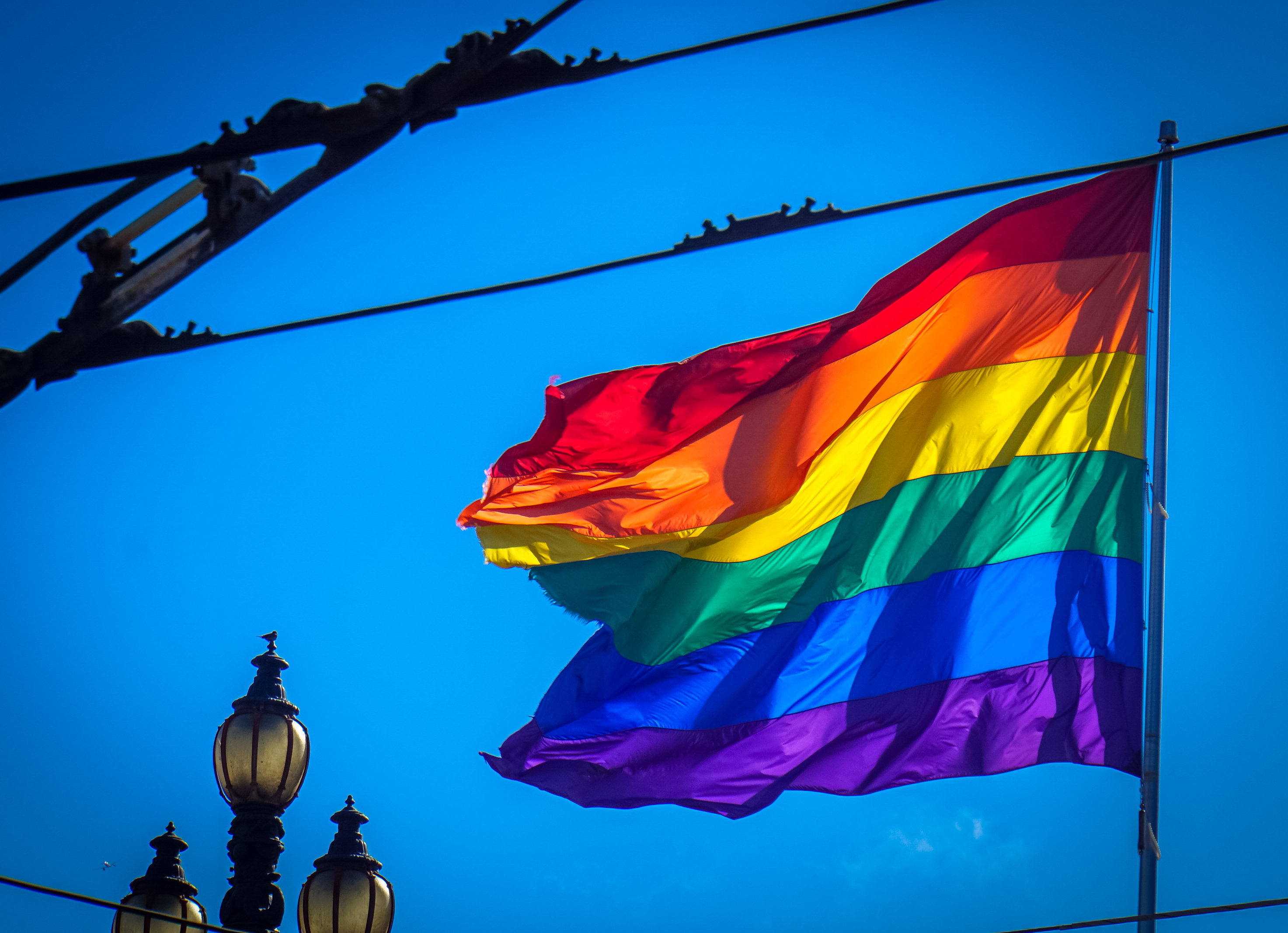 Published in Published in Published in Published in Published in Published in